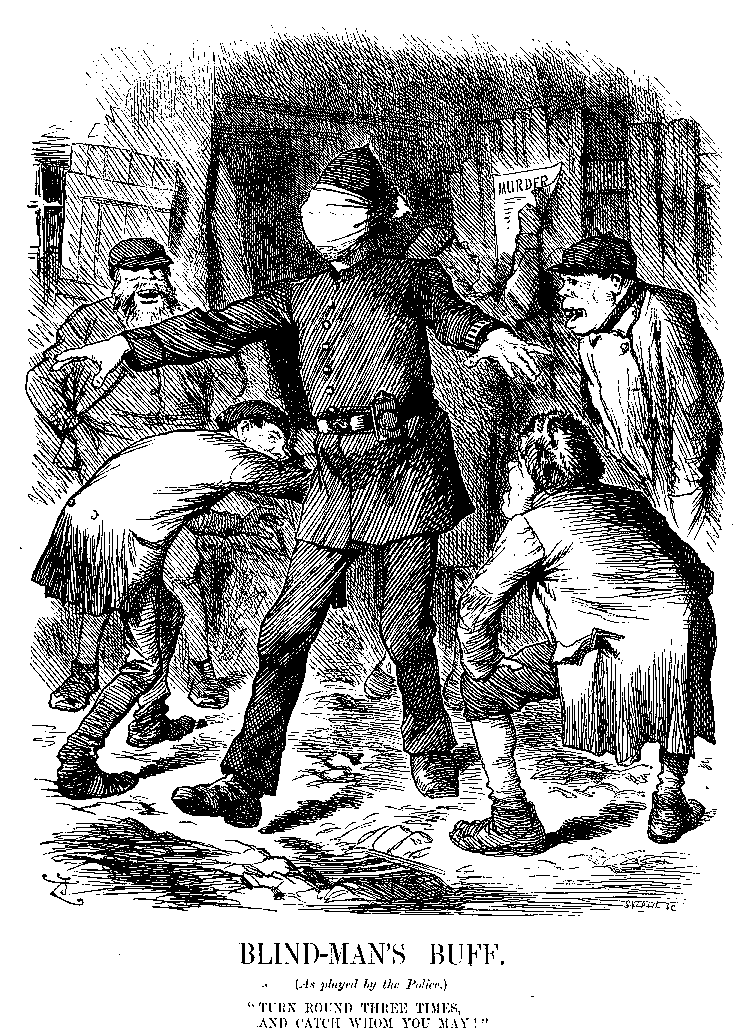 Cartoon criticising the police for their inability to find the Whitechapel murderer.